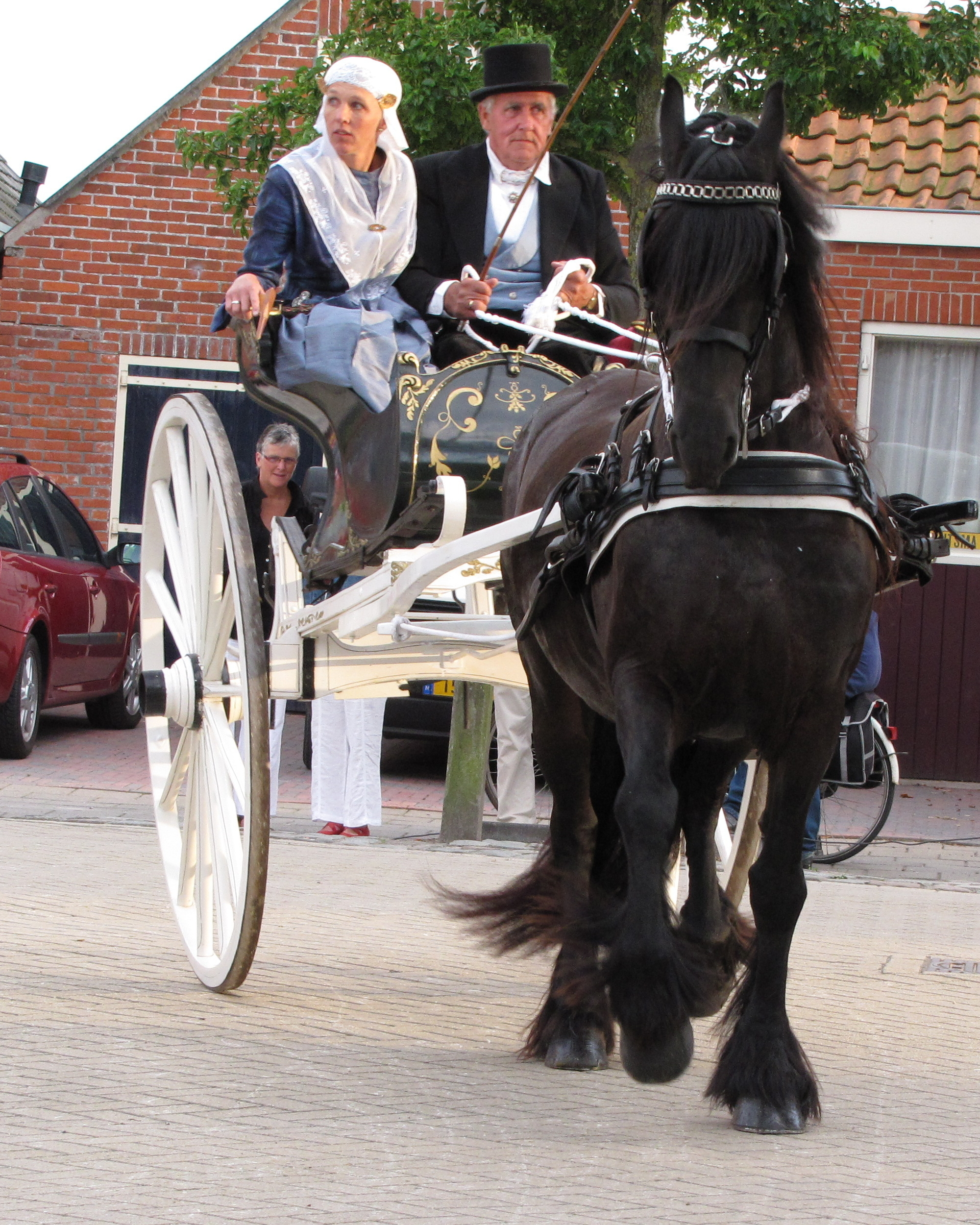 Ring riding in Ljoessens in Fryslân (the Netherlands) with an original Frisian chaise.